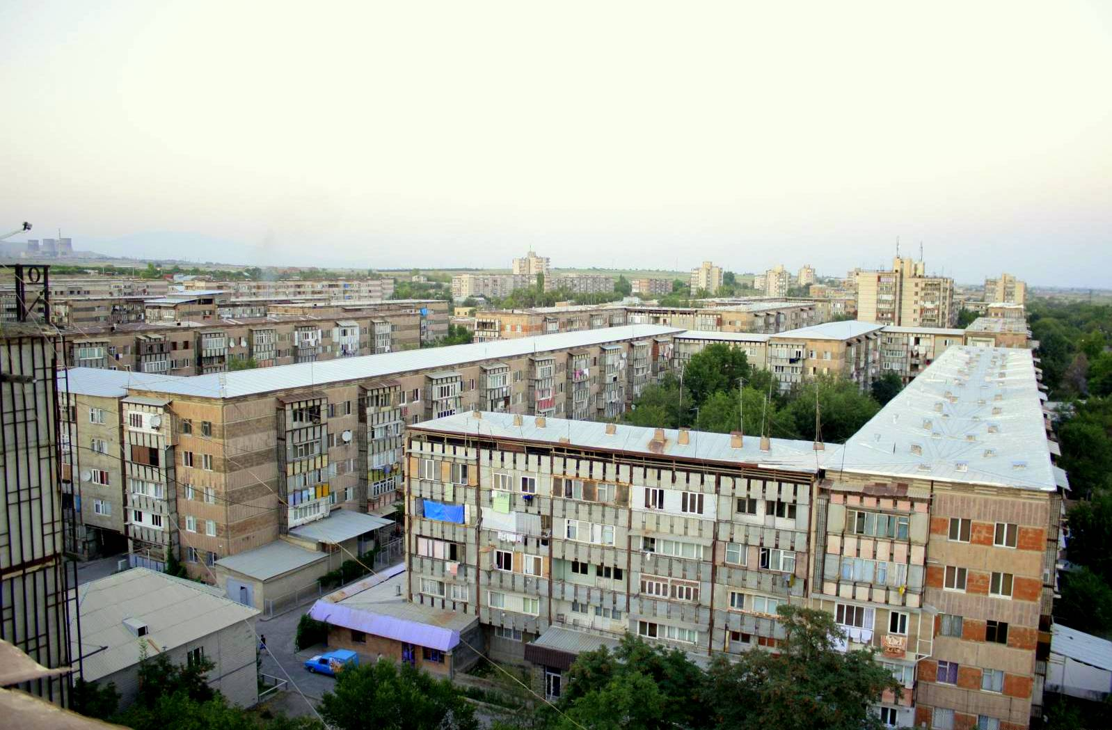 Metsamor town view